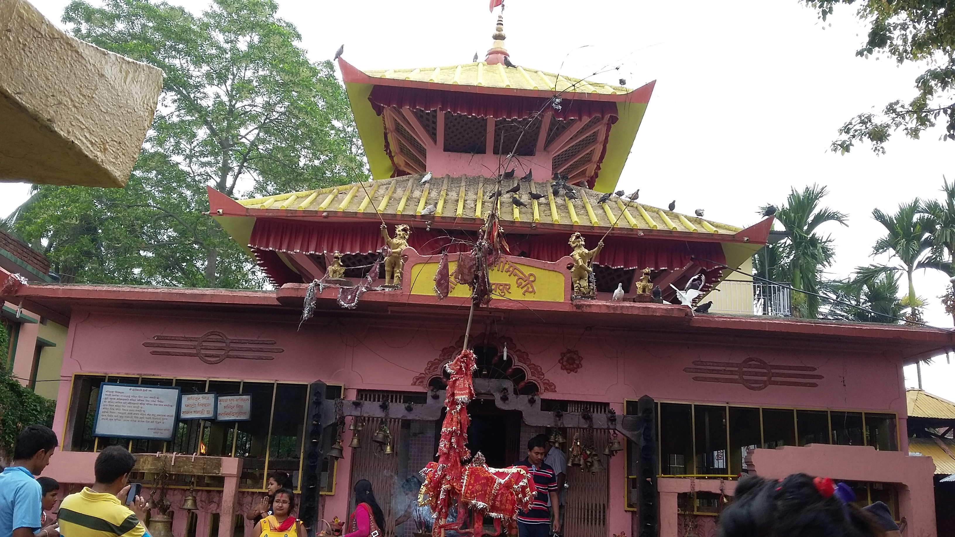 The temple dantakali is located in dharan site,nepal.It is believed that lord shiva's first wife satidevi after death lord shiva hold her and roam her different places. At this place satidevi's tooth get fallen and there lies this temple "dantakali" . Danta refers tooth in nepali .